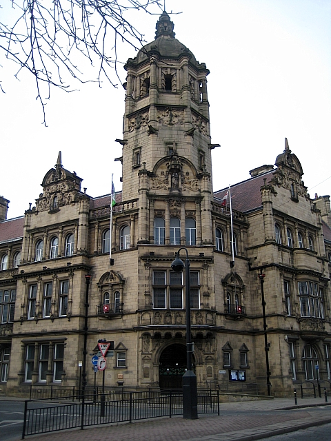 Wakefield County Hall Wakefield County Hall, showing the polygonal corner tower, which is topped by a dome. Built in 1894-1898, the architects were Gibson and Russell. It is a grade I listed building. The building was formerly the County Hall of the West Riding County Council from 1898 to 1974, and of the West Yorkshire Metropolitan County Council from 1974 to 1986. It was acquired by the City of Wakefield Metropolitan District Council in 1987 as the Council’s main headquarters.